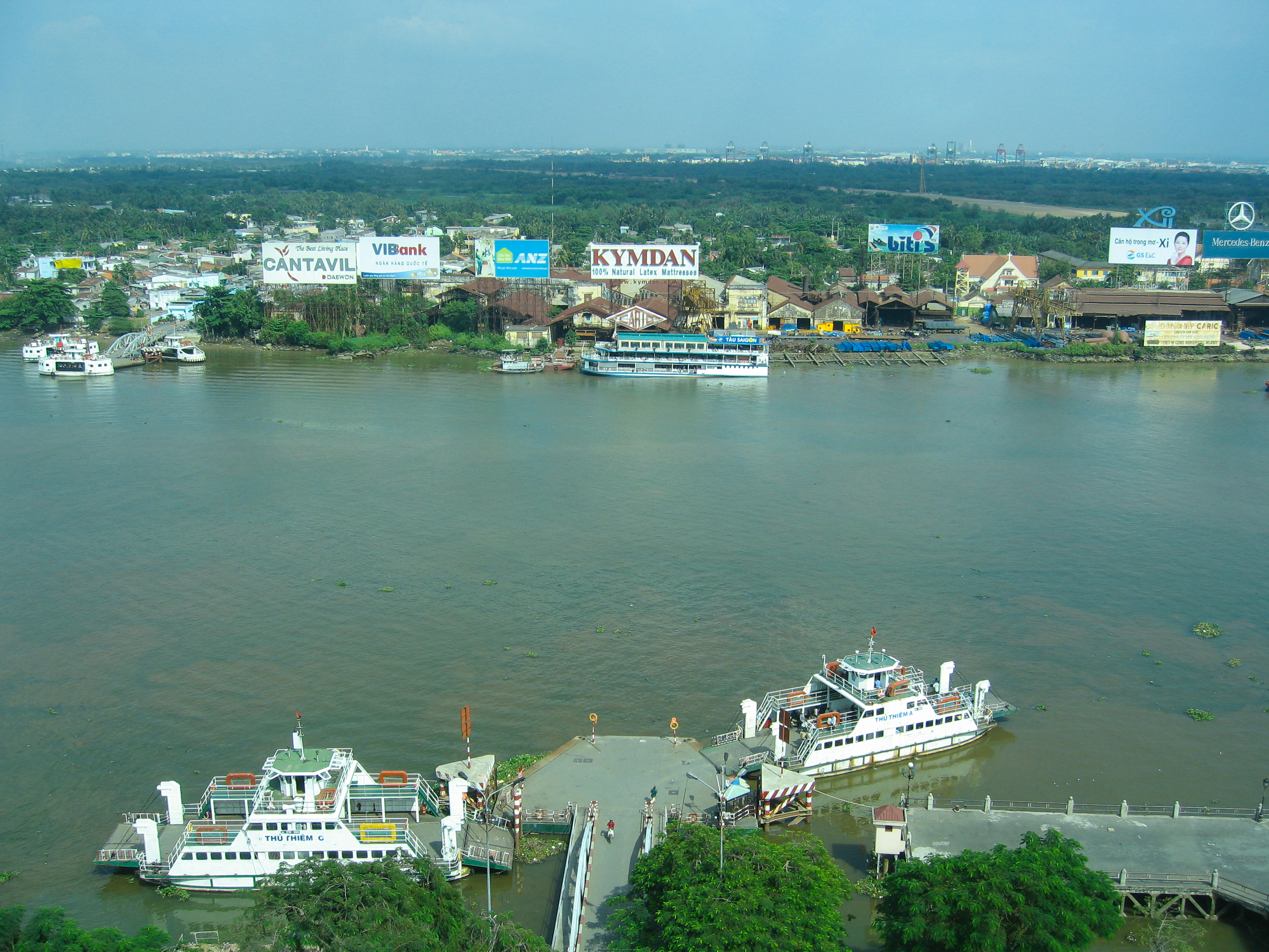 The Thu Thiem ferry crossing on Saigon river, view from District 1-side.